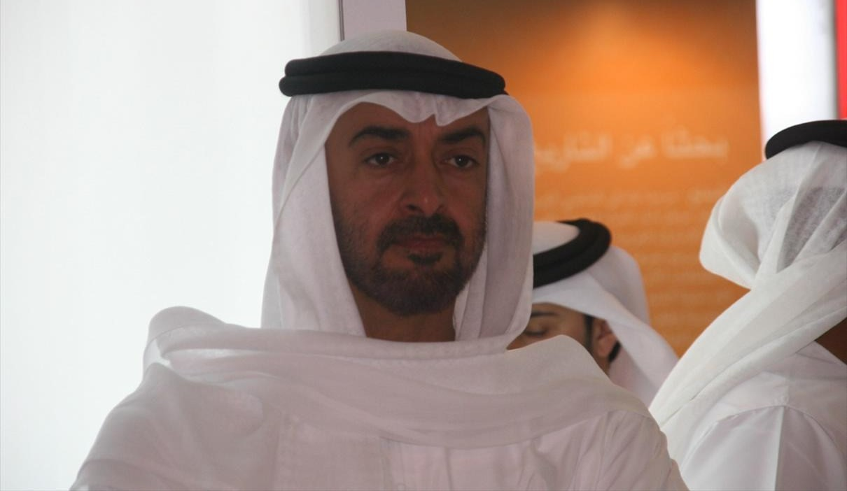 This is a photo of Sheikh Mohammed bin Zayed Al Nahyan at the Cityscape Abu Dhabi 2008 on 13 May 2008.